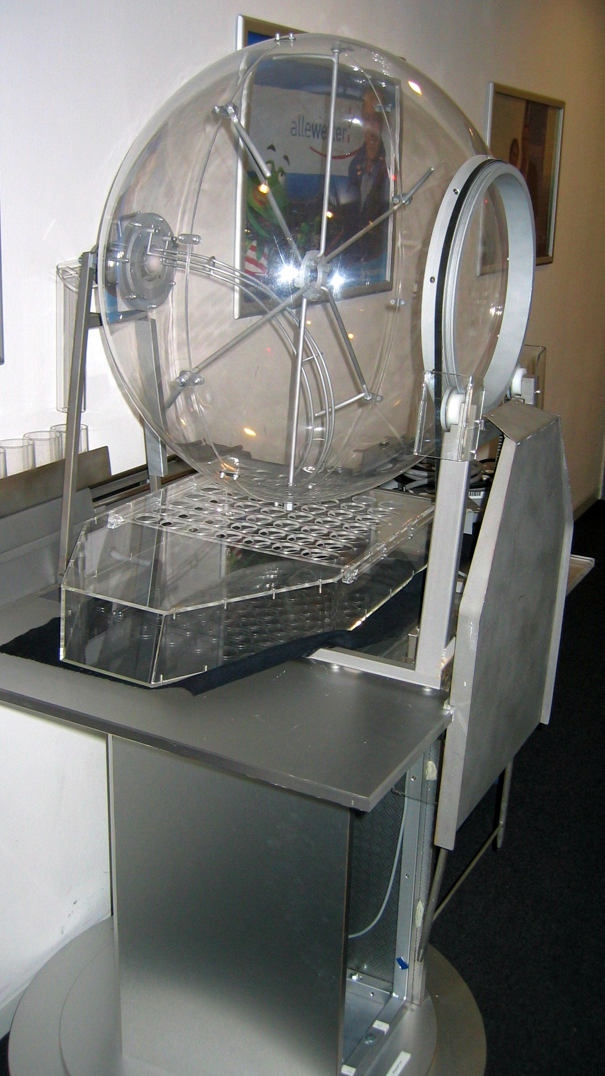 Equipment of Ziehung der Lottozahlen (lottery) in Main Tower, Frankfurt am Main